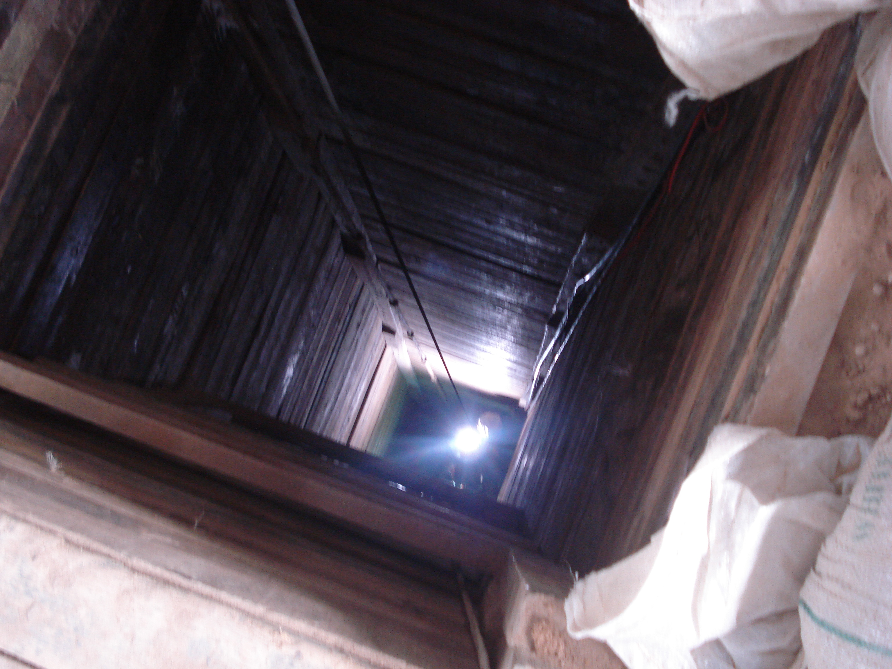 Entrance to a smuggeling tunnel